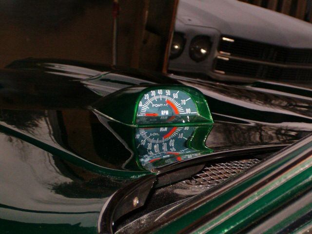 1968 GTO Hood-mounted Tach.